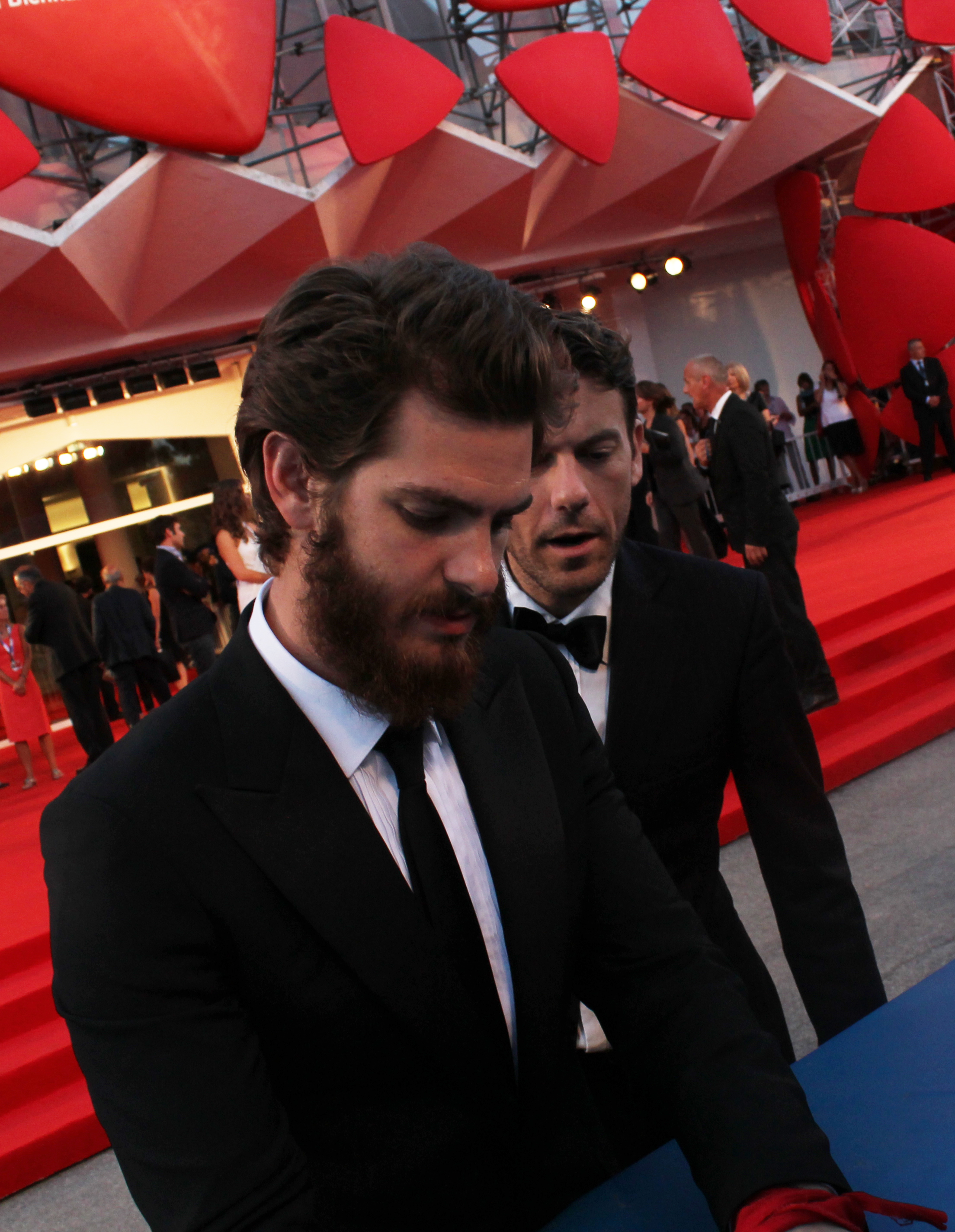 Venice Film Festival 2013